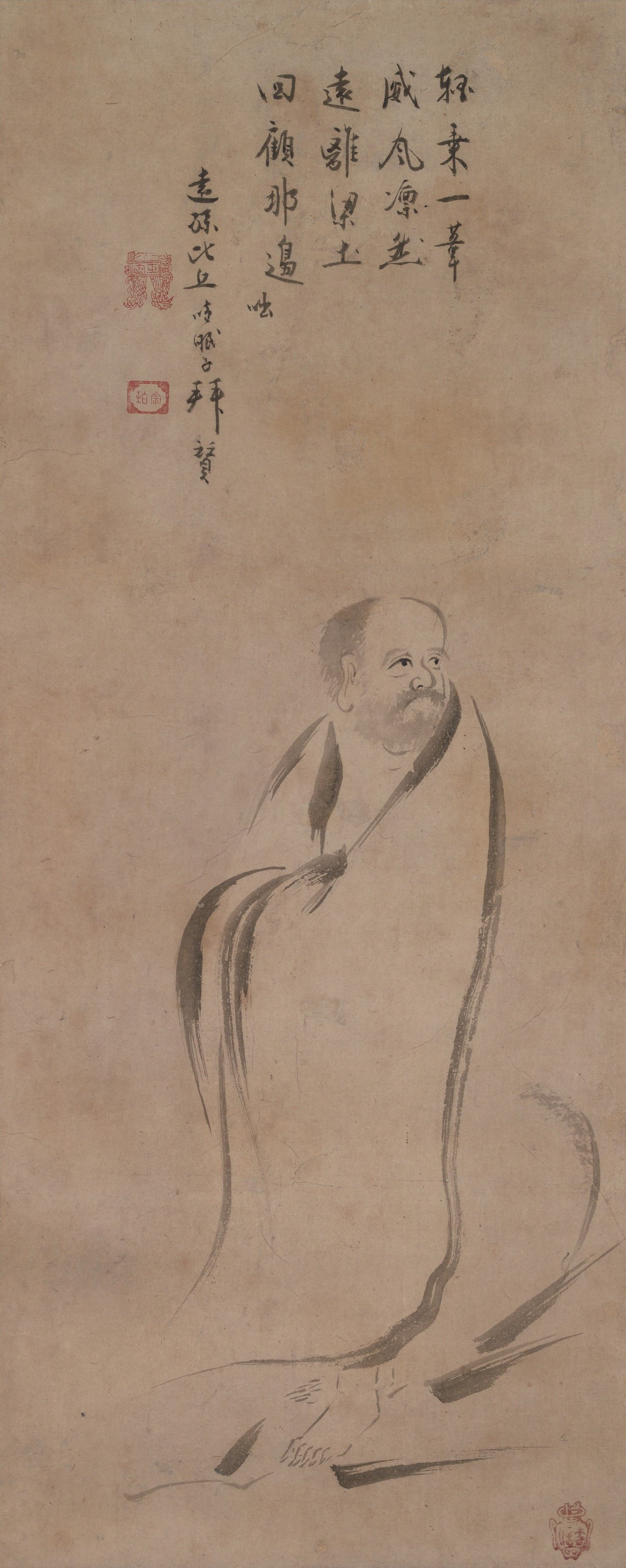 Bodhidharma Crossing the Yangzi River on a Reed by Kano Sōshū, Momoyama period, late 16th century, Japan, hanging scroll; ink on paper, image: 31 3/4 x 12 3/4 in. (80.6 x 32.4 cm), Metropolitan Museum of Art, accession 2007.29